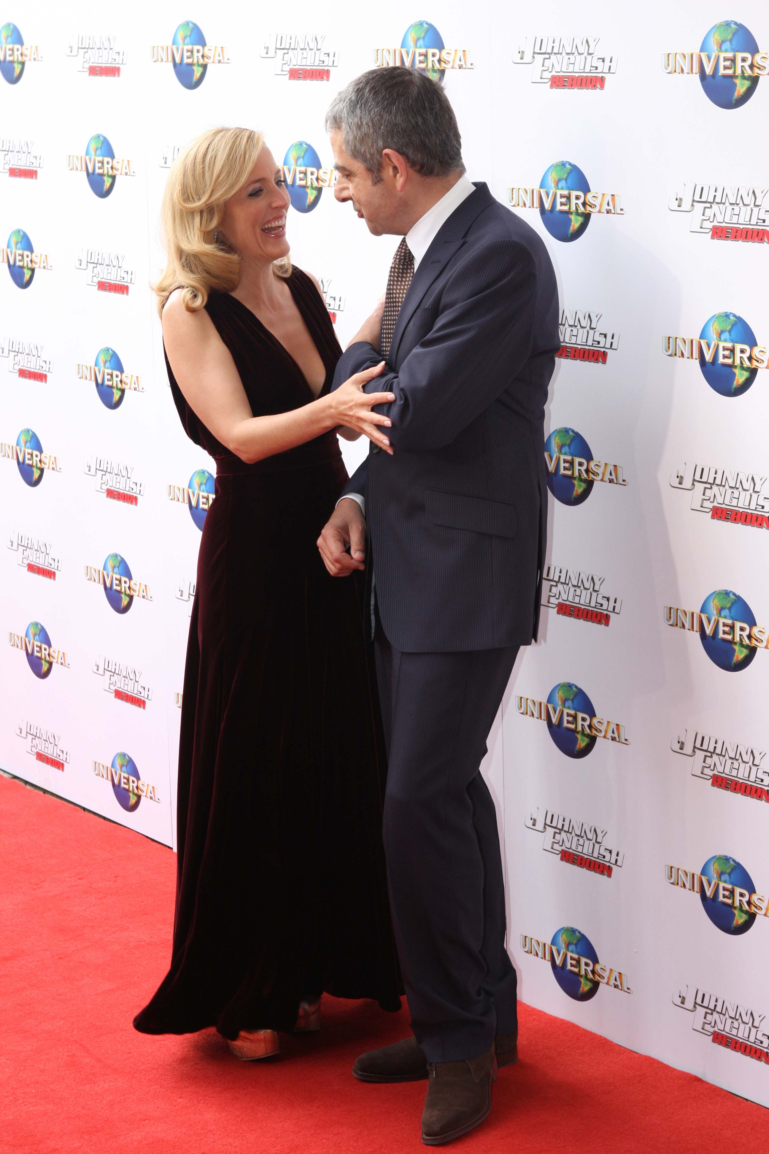 Gillian Anderson and Rowan Atkinson at Johnny English Reborn red carpet premiere, Sydney